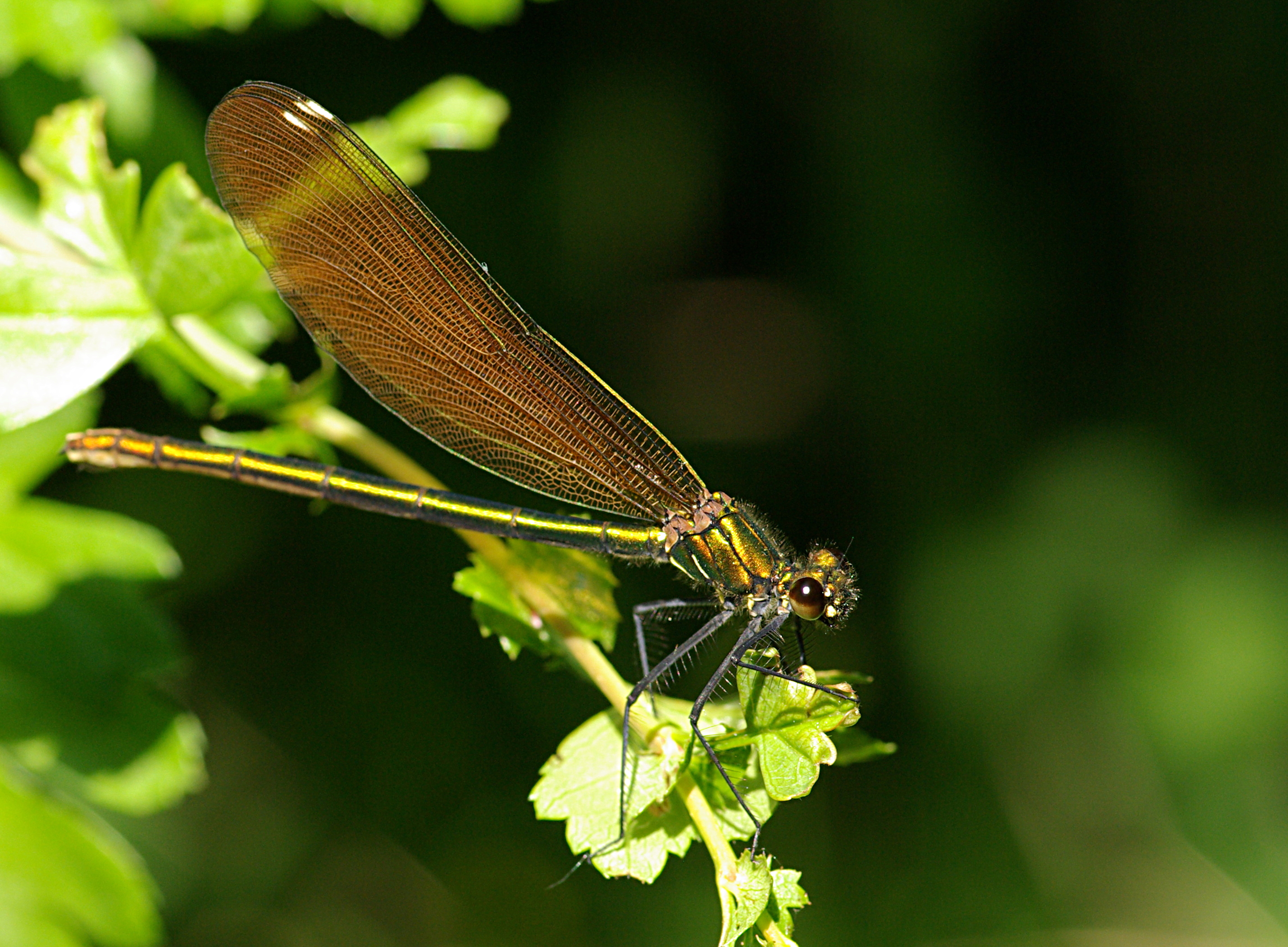 Calopterix virgo female, in Normandie.